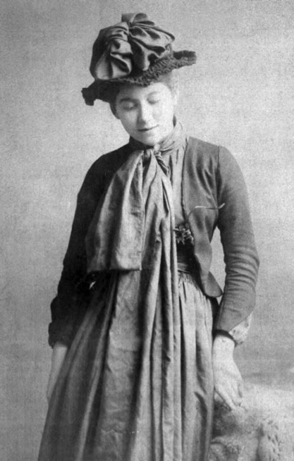 Mabel Dearmer died 1915 - here pictured in 1890 at the age of 18